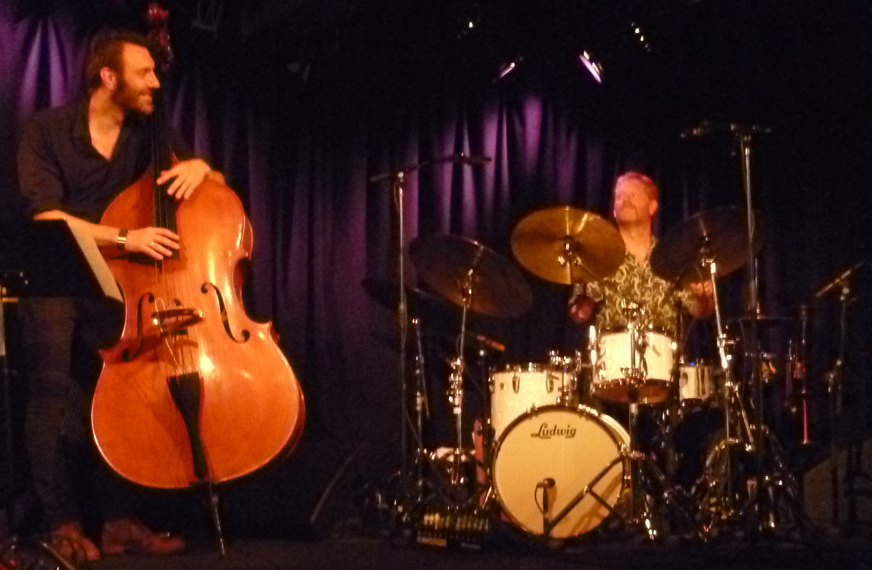 Mats Eilertsen and Per Oddvar Johansen with Adam Bałdych and Helge Lien Trio at Nattjazz 2016, Sardinen, USF Verftet, Bergen, Norway.